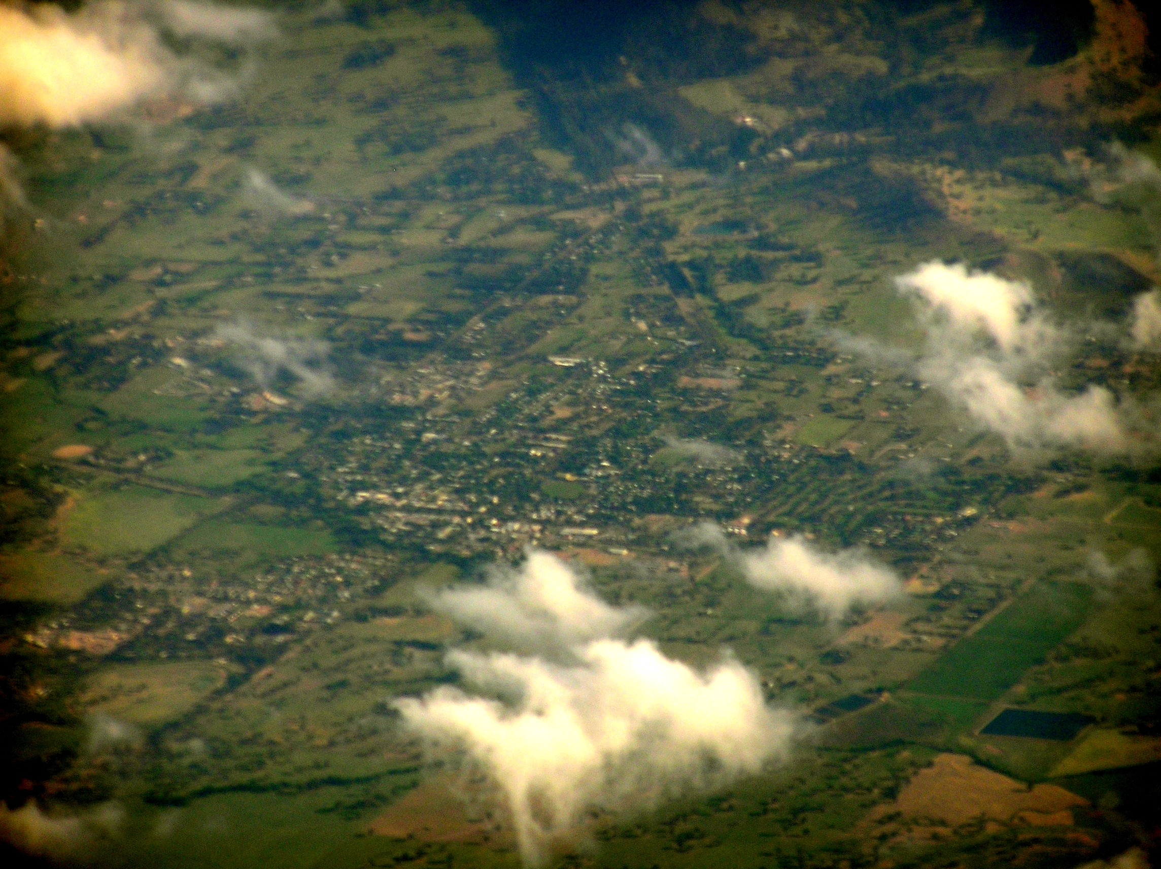 aerial photo of Mansfield from south east